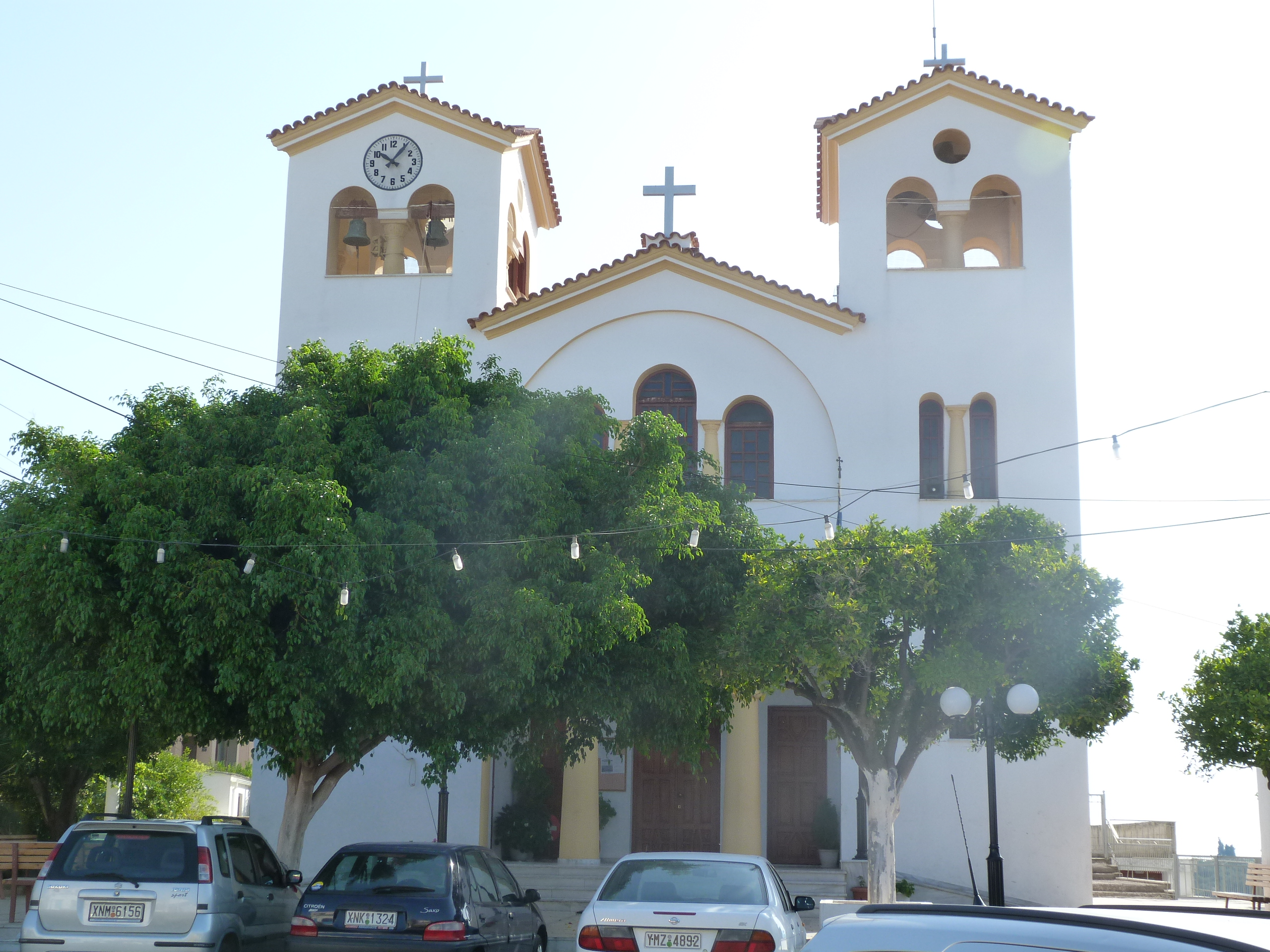 Galatas church